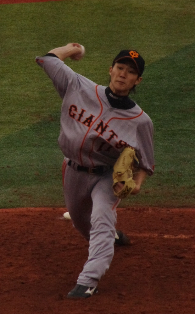 Yuya Kubo, pitcher of the Yomiuri Giants, at Yokohama Stadium.